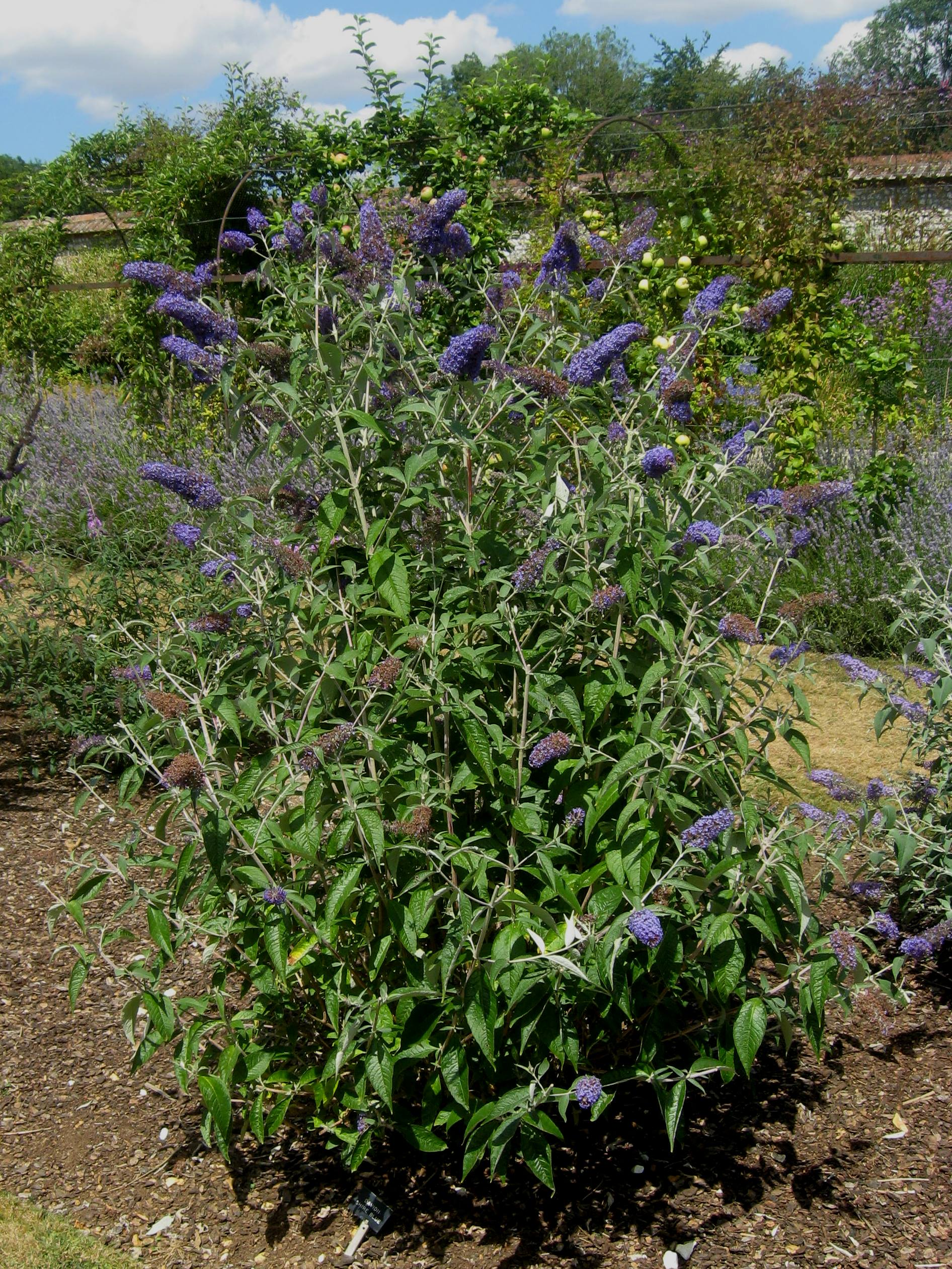 Photo of Buddleja davidii 'Shire Blue' plant, Longstock Park, UK